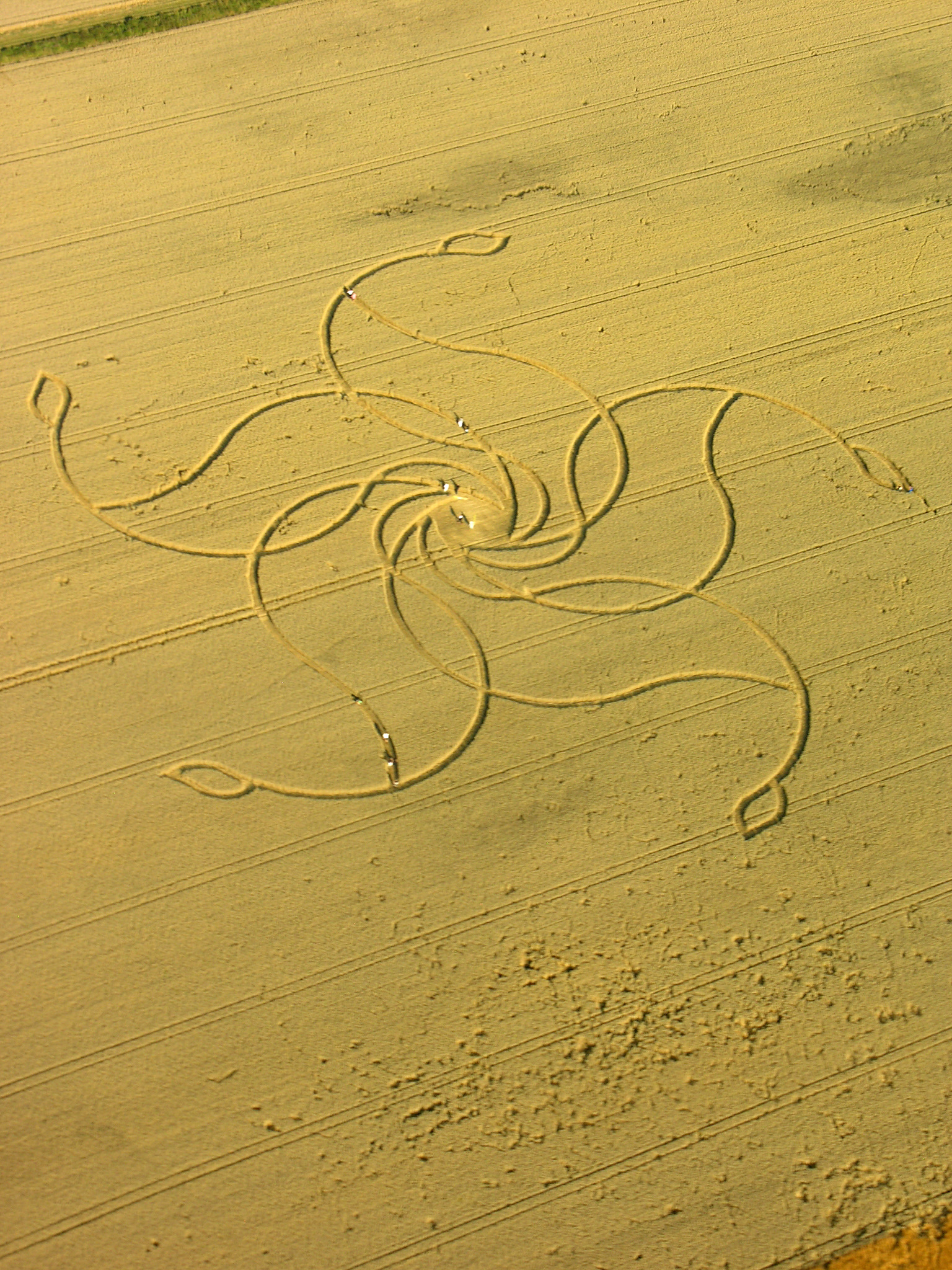 Aerial View of the Crop Circle in Diessenhofen